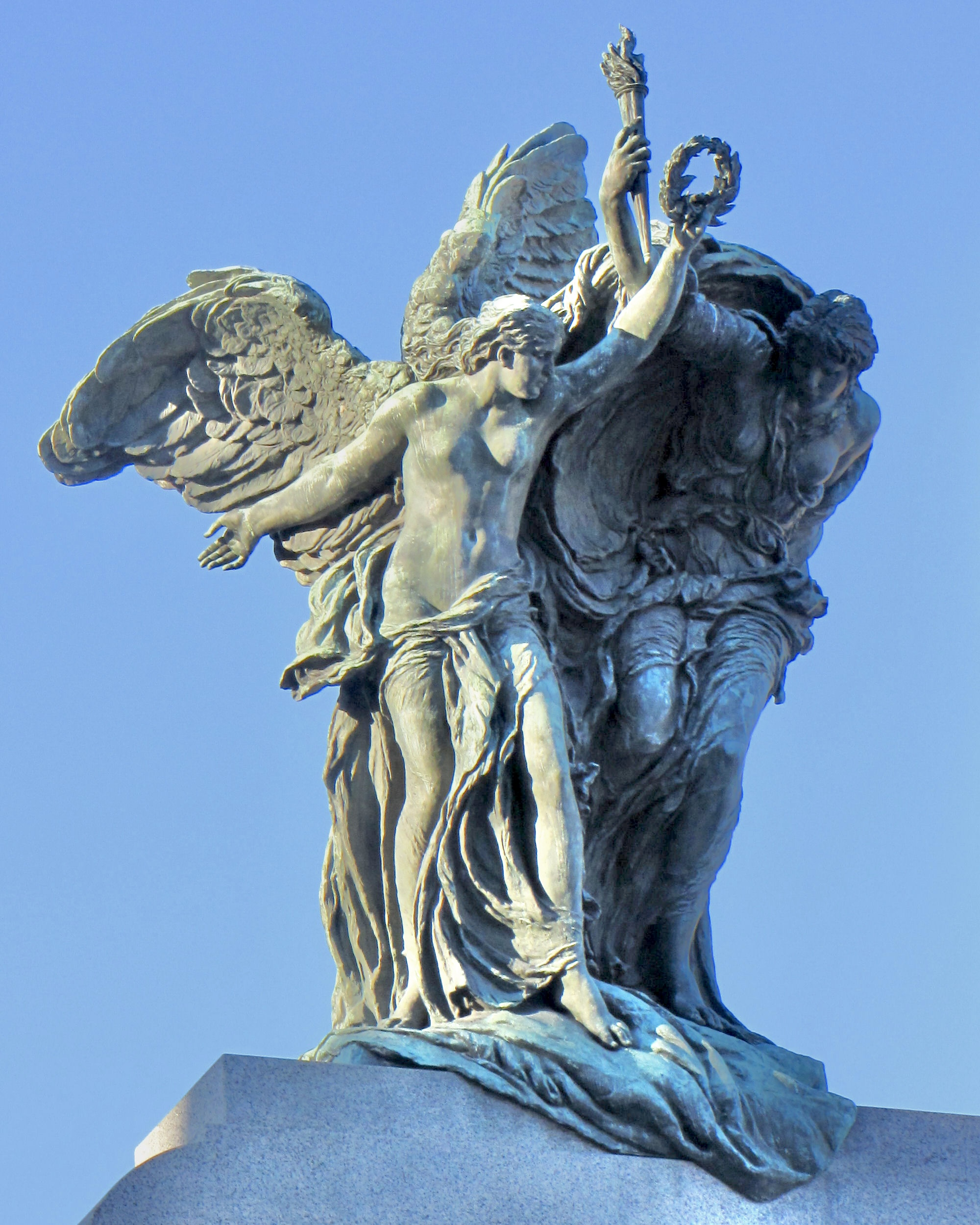 Top of National War Memorial, Ottawa, Ontario, Canada